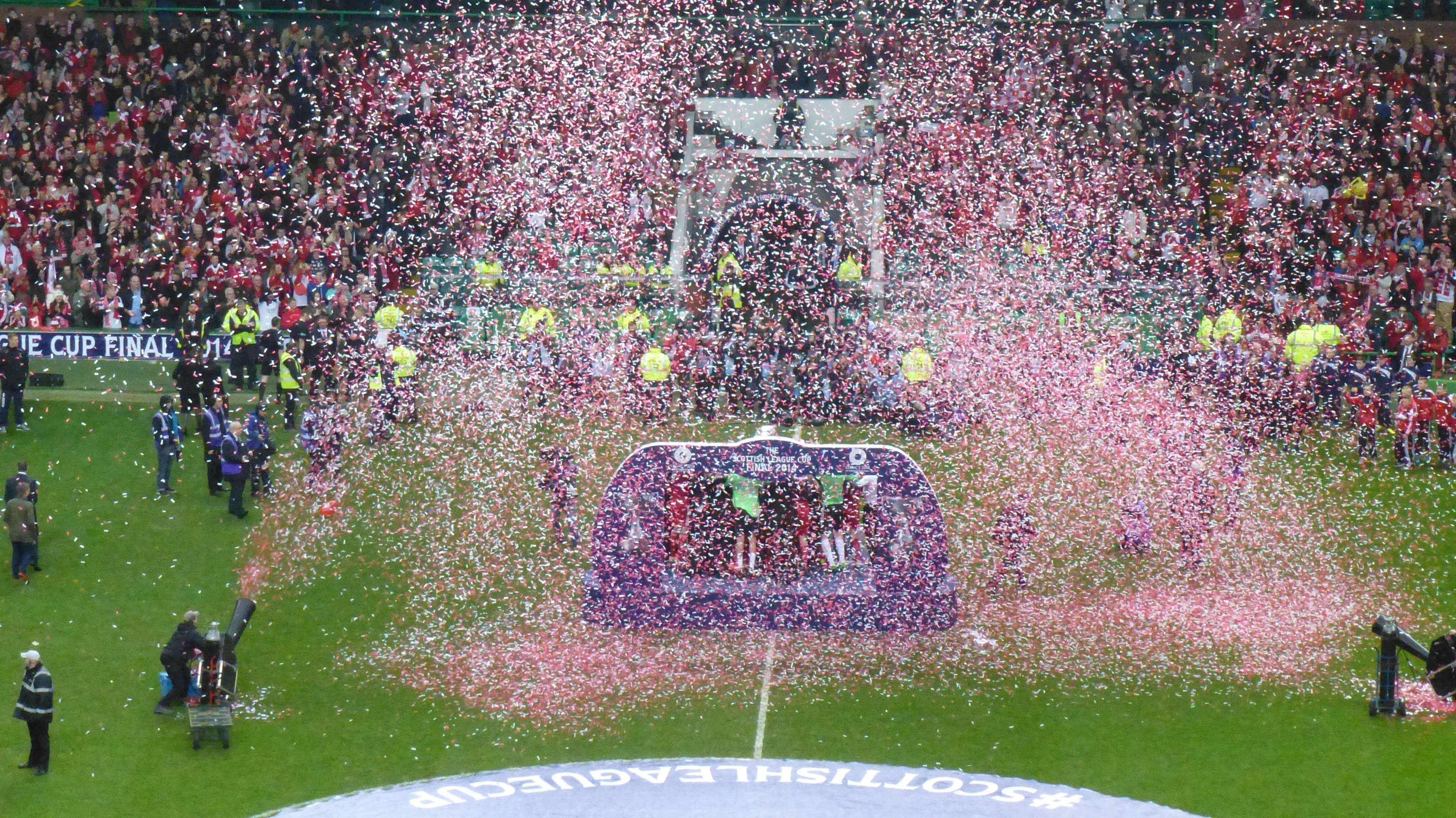 Confetti following the Scottish League Cup final 2014